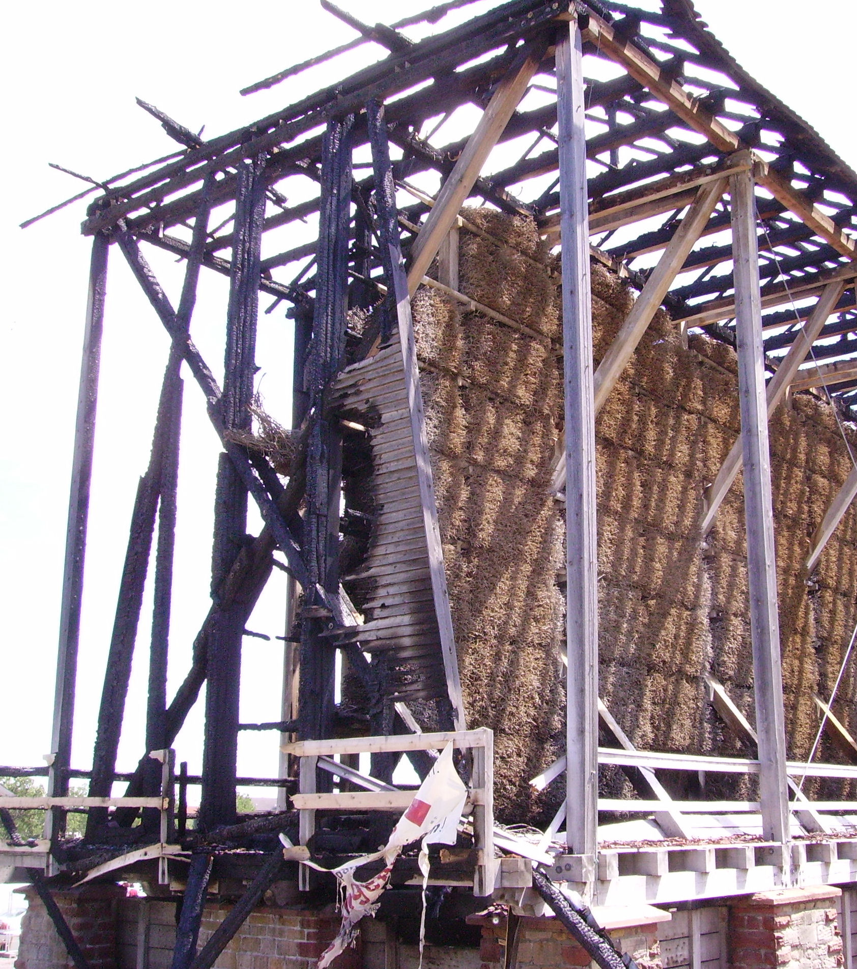 Graduation tower of Bad Dürkheim, Germany